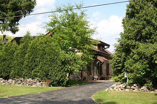 The Jacob Voight House, a National Registered Historic Place, in Mequon, Wisconsin.